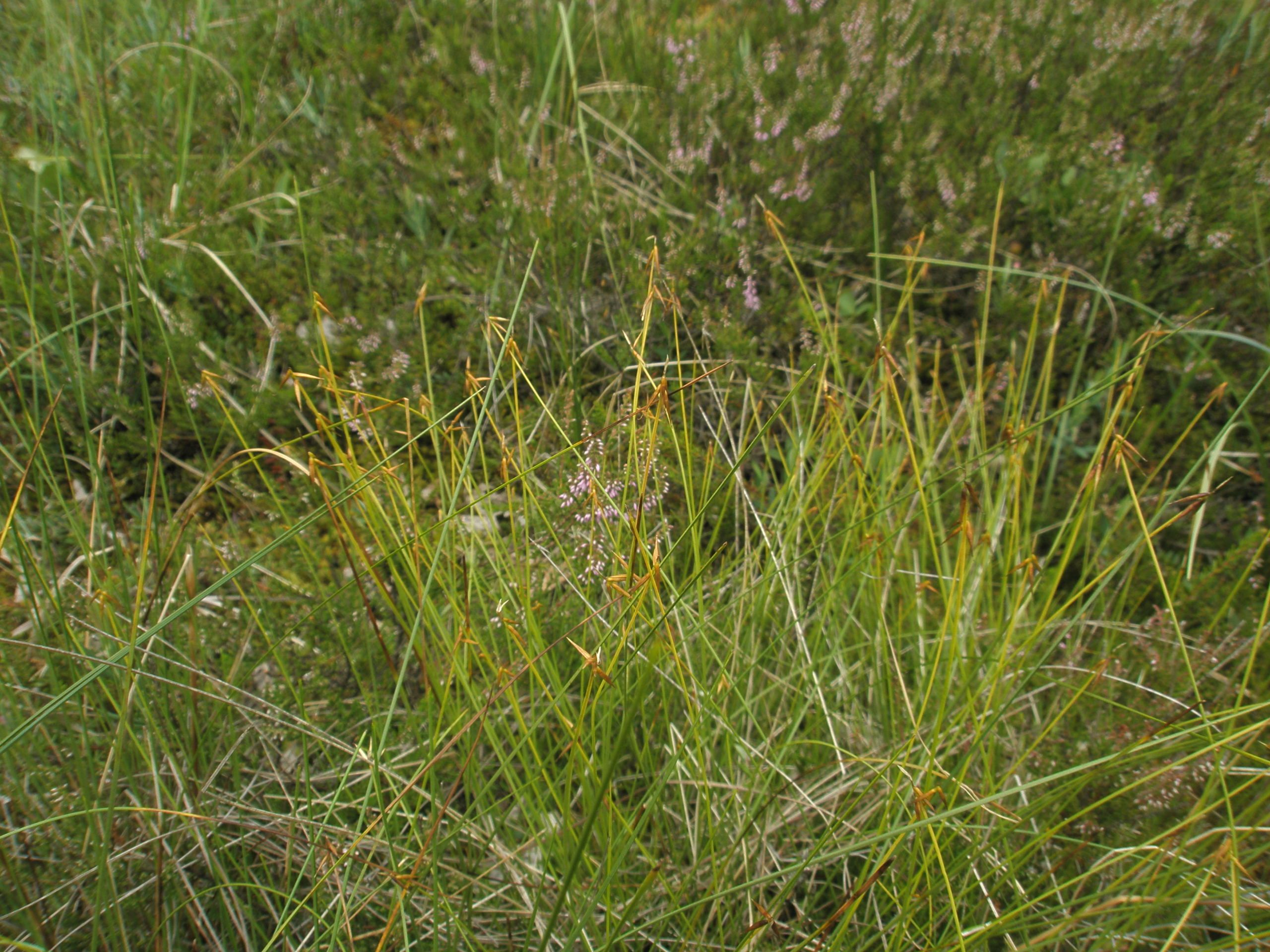 Carex pauciflora